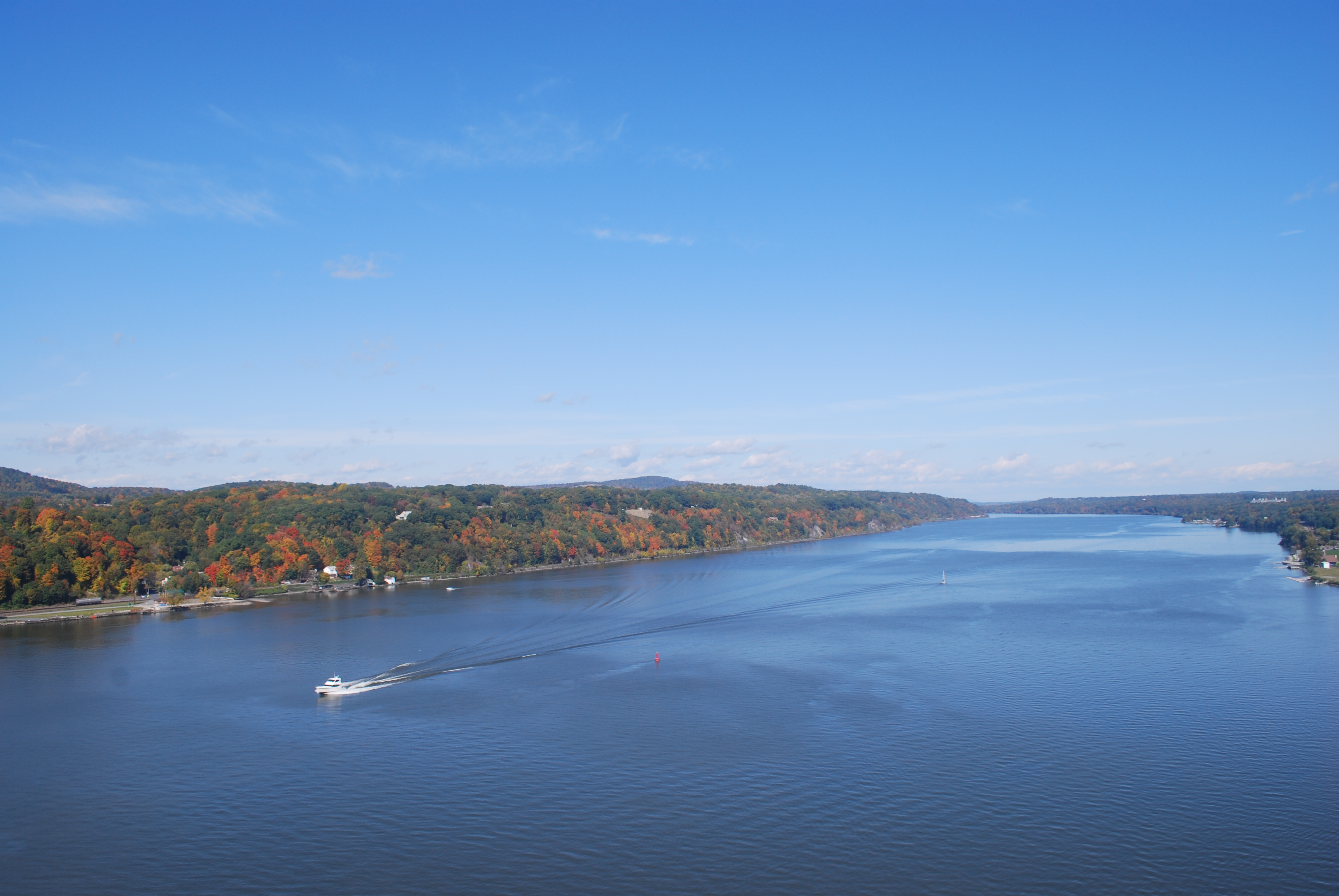 Bird's-eye view of the Hudson River, New York, USA, from the Walkway Over the Hudson, a footbridge that spans the river.